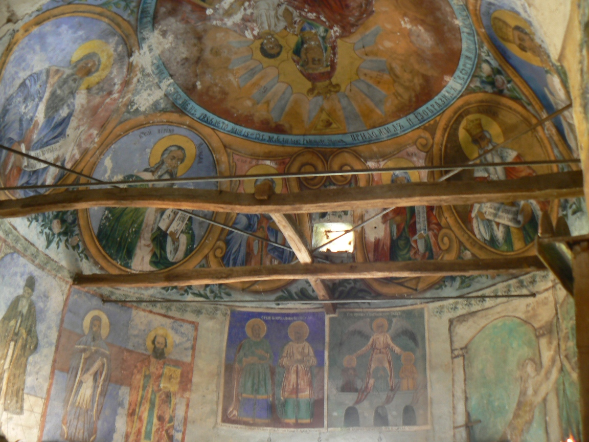 Interior of the church of Gigintsi Monastery, Bulgaria